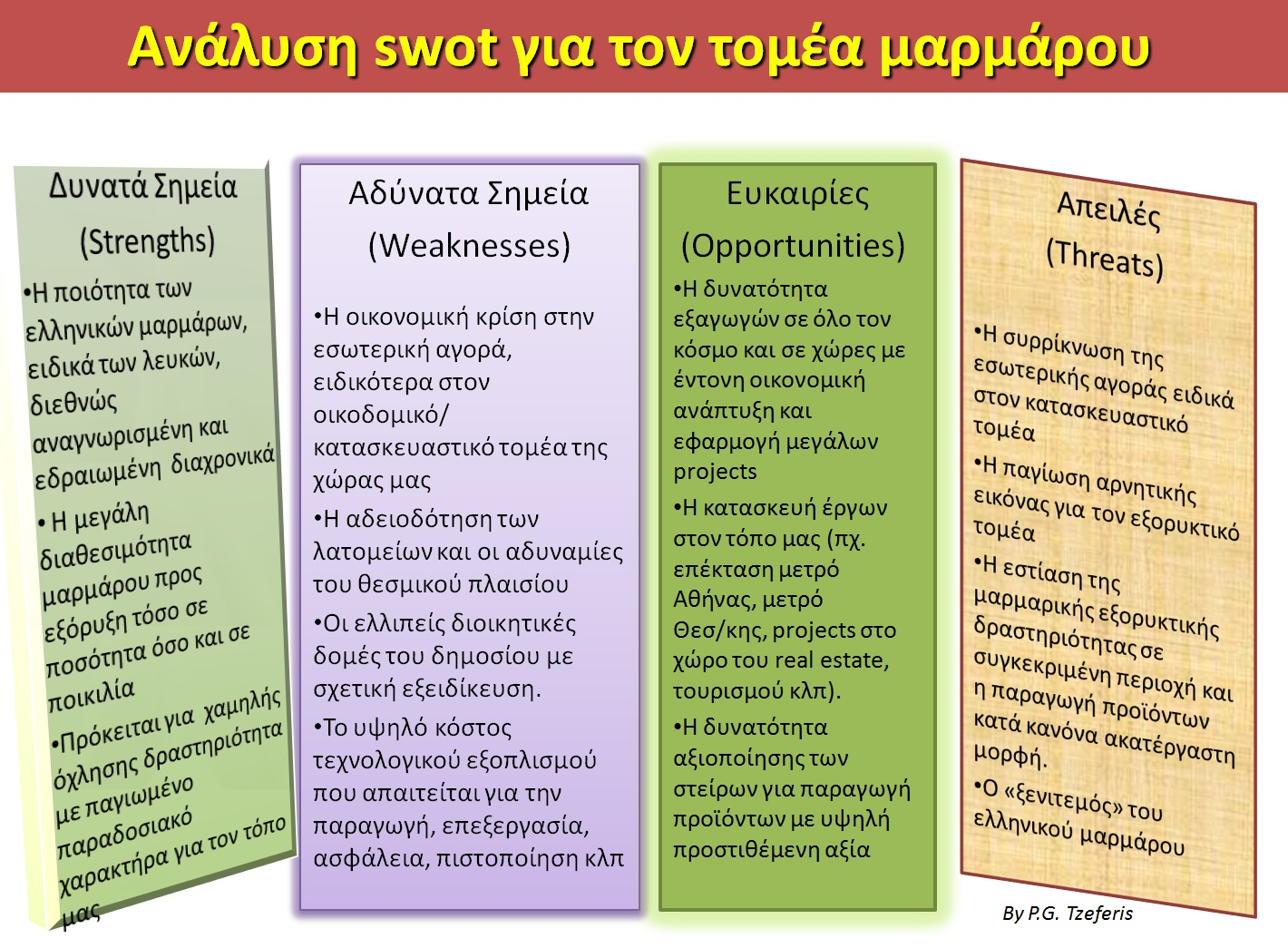 SWOT Analysis (Strengths, Weaknesses Opportunities, Threats) for Greek Marble sector